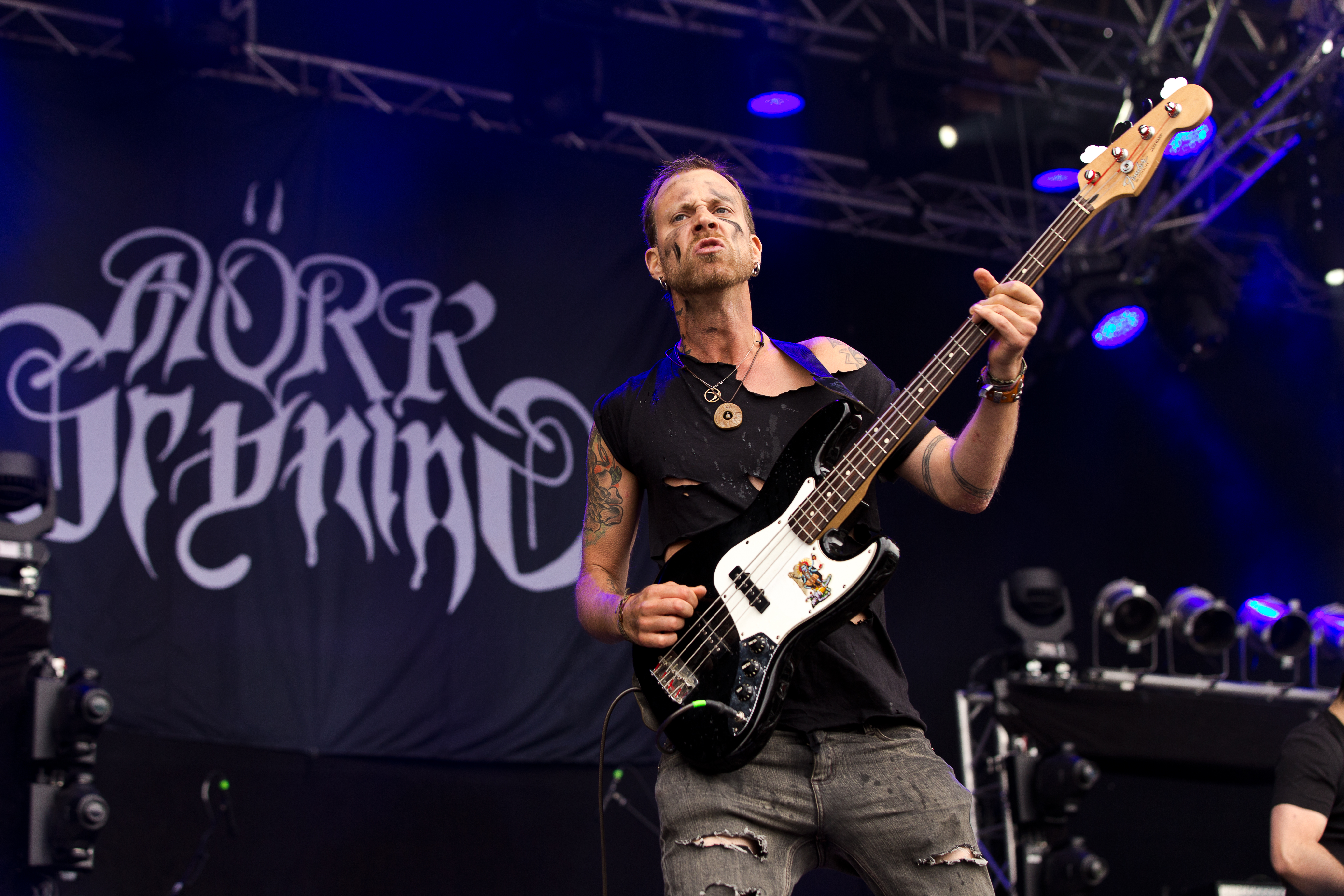 The Swedish black metal band Mörk Gryningat the Party.San Metal Open Air 2016 in Obermehler-Schlotheim/Germany